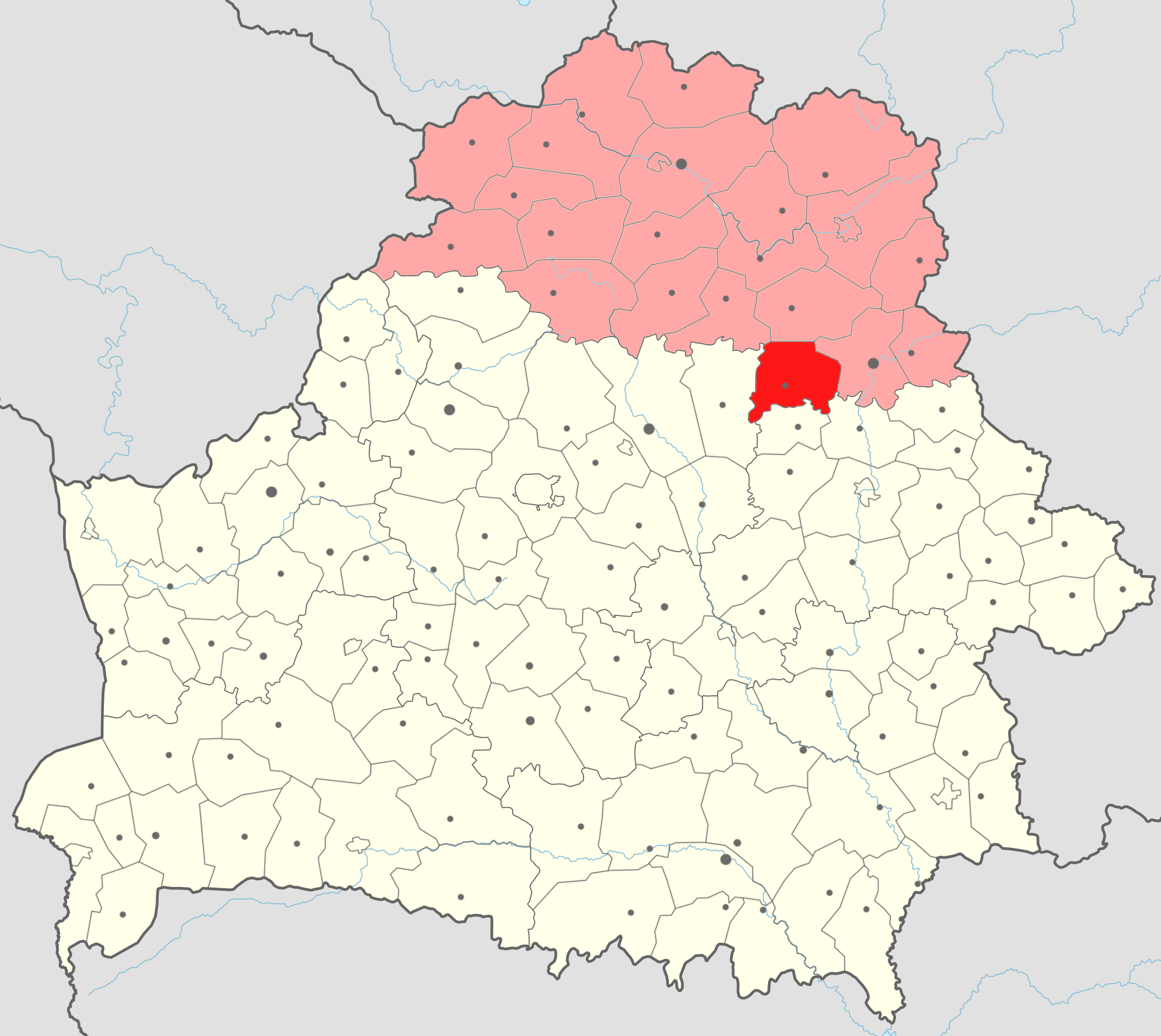 Map of Talačynski raion (in red) with Viciebskaja voblast' (in light red) on the map of Belarus.